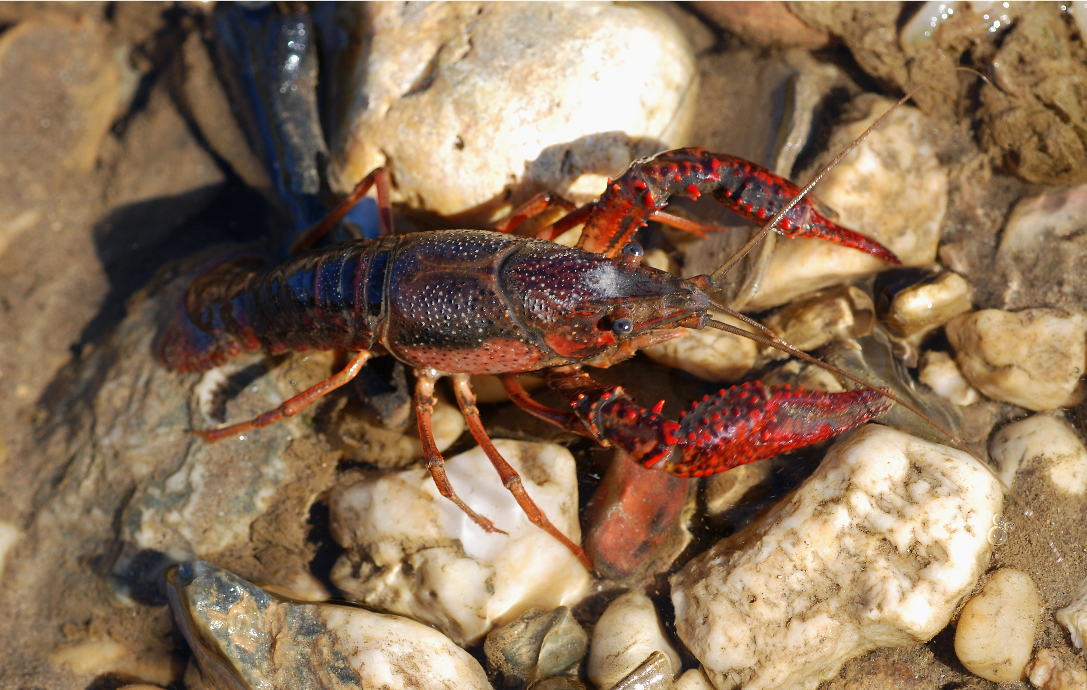 Red swamp crawfish (Procambarus clarkii)